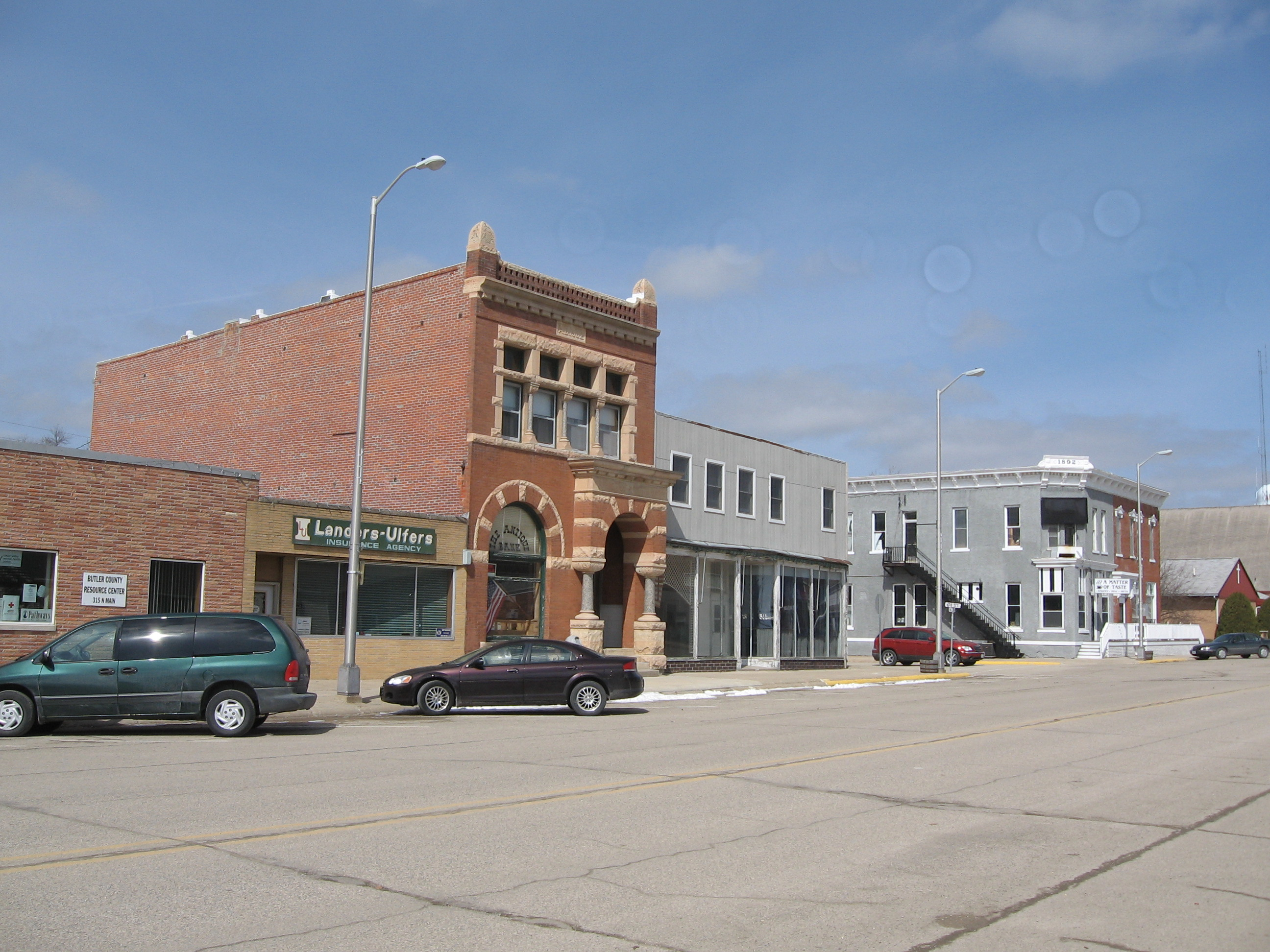 Allison, Iowa, 3/08